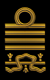 Rank_insignia_of_Grande_Ammiraglio_of_the_Italian_Royal_Navy